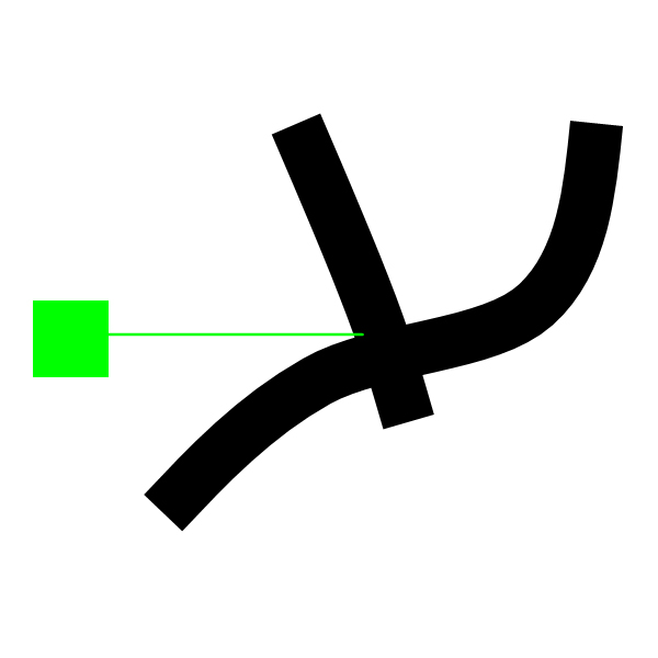 genuine crossing of lines